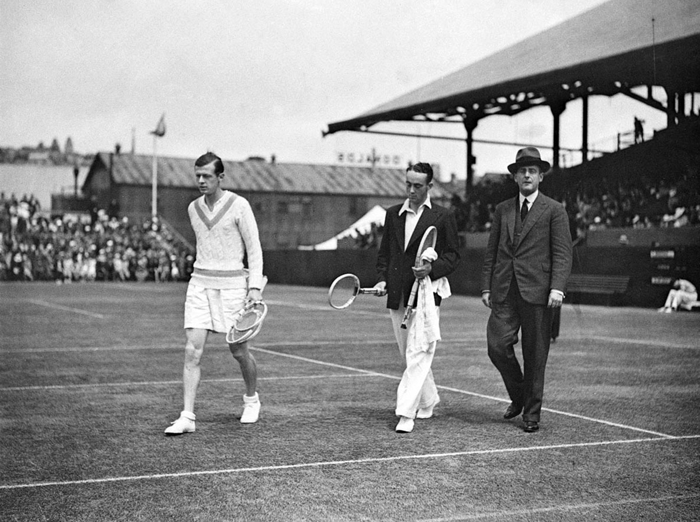 French tennis player Christian Boussus (left) and Australian tennis player Vivian McGrath (center) enter the centre court of the Whuite City Stadium in Sydney, Australia with Bryan Fuller (right), President of the NSW Lawn tennis Association